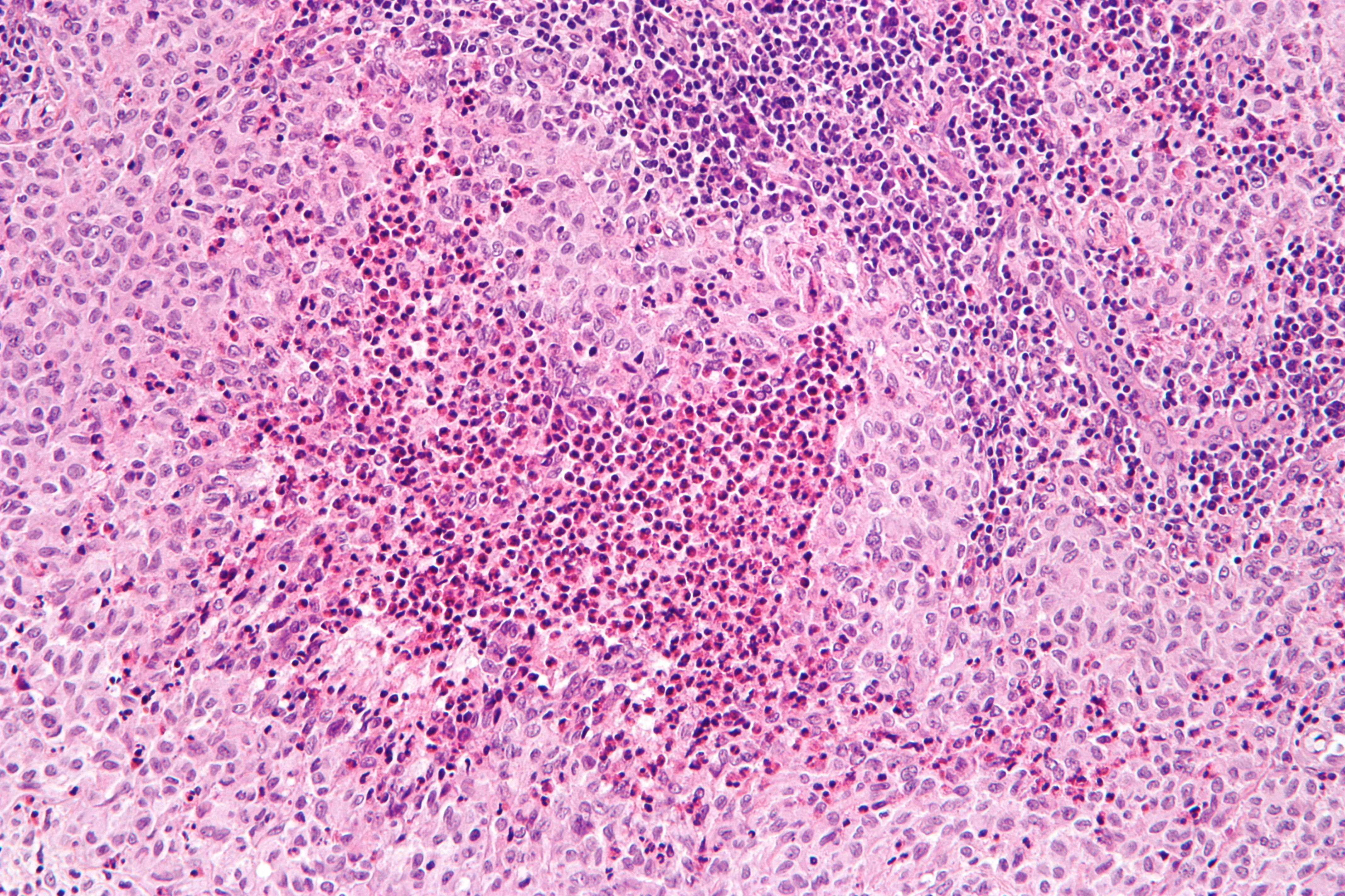 High magnification micrograph of Langerhans cell histiocytosis, previously known as histiocytosis X, Hand-Schüller-Christian disease, and Abt-Letterer-Siwe disease. H&E stain. It is characterized by Langerhans type histiocytes which have a reniform (or kidney-shaped) nucleus and stain with S100 and CD1a. Related images Very low mag. Low mag. Intermed. mag. Very high mag.